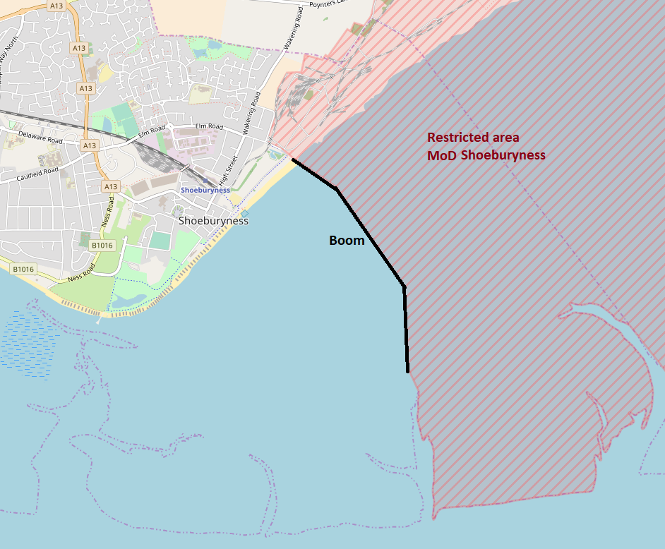 Map showing location of Shoeburyness Boom This map may be incomplete, and may contain errors. Don't rely solely on it for navigation.